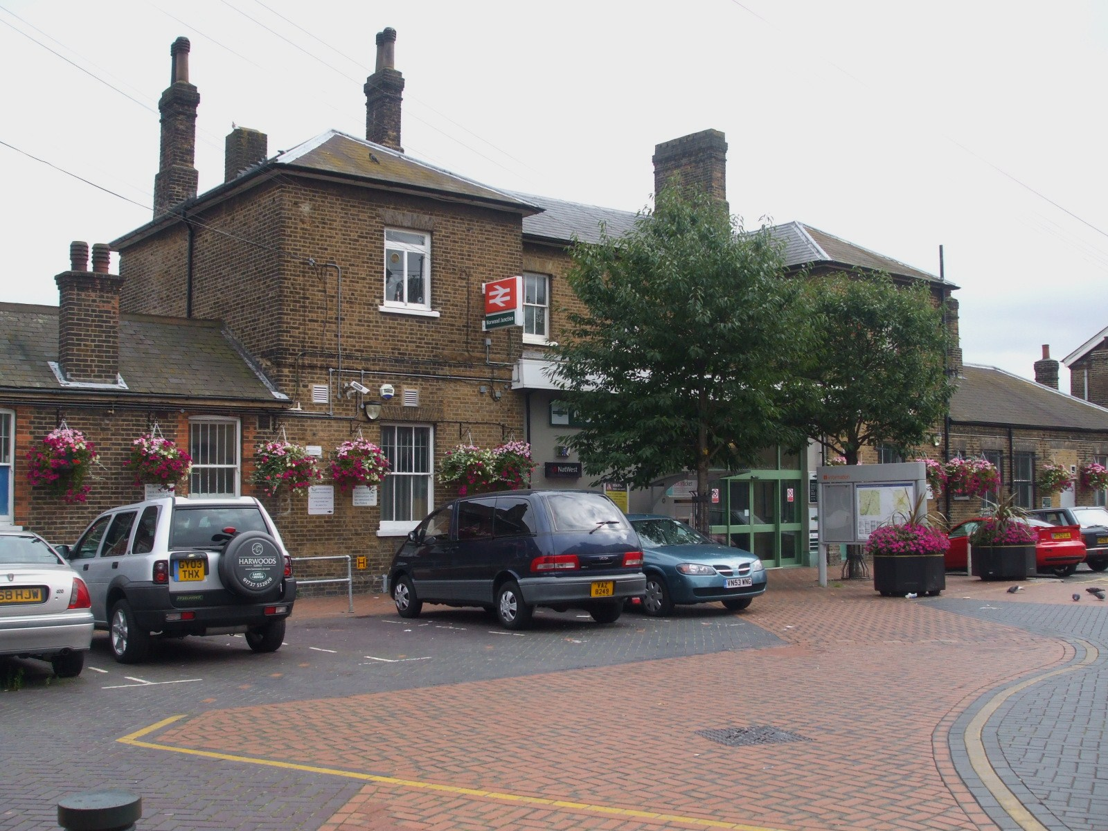 Norwood Junction station main building